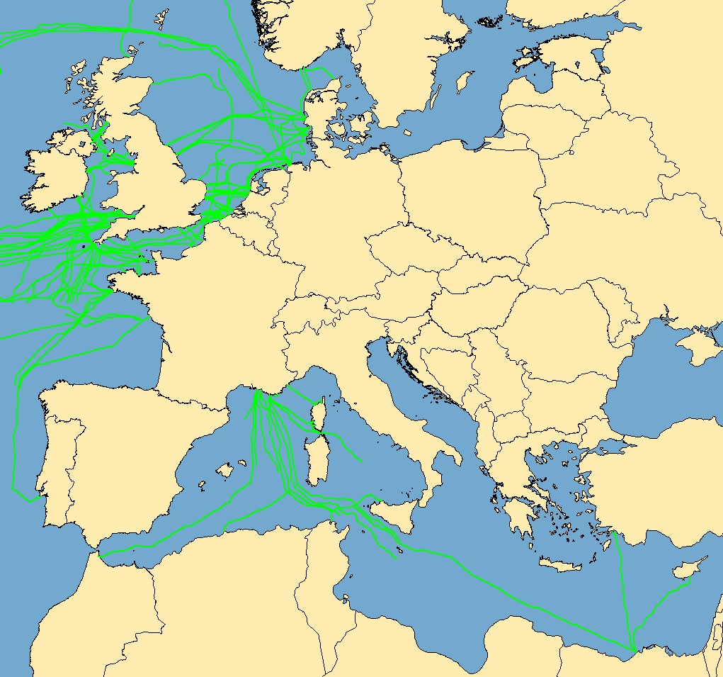 Map with examples of submarine communications cables. Some of the cables represented were incomplete in the mapping stage; they do not go to "nowhere", they are merely incomplete when this image was captured.